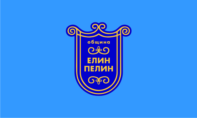 Flag of town of Elin Pelin, Bulgaria